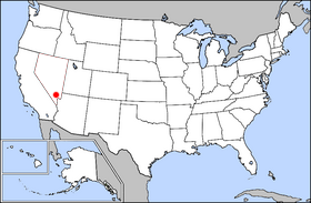 Range map for the extinct Vegas Valley Leopard Frog (Lithobates fisheri, previously Rana fisheri).